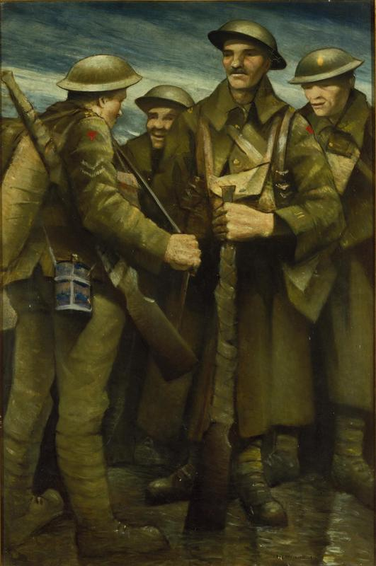 A Group of Soldiers image: A group of four British soldiers in full kit standing beneath a heavy sky. The two men on the left are locked in discussion, and the third seems to be listening in. The other stands in the front of the composiion, his hand gripping his rifle, his gaze fixed on something beyond the frame.